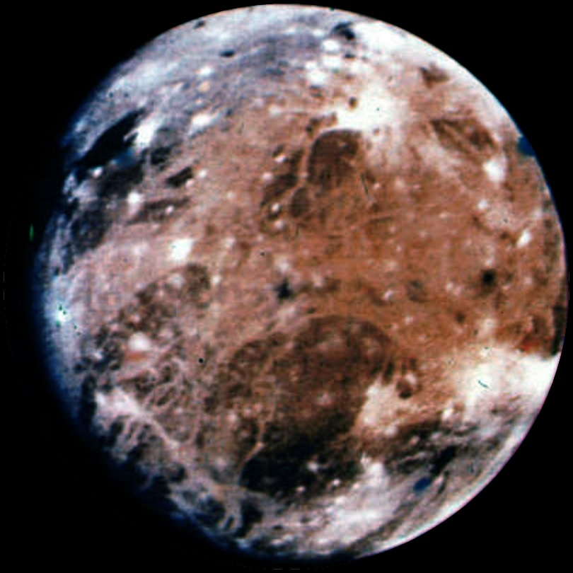 Jupiter moon Ganymede, seen from Voyager 1